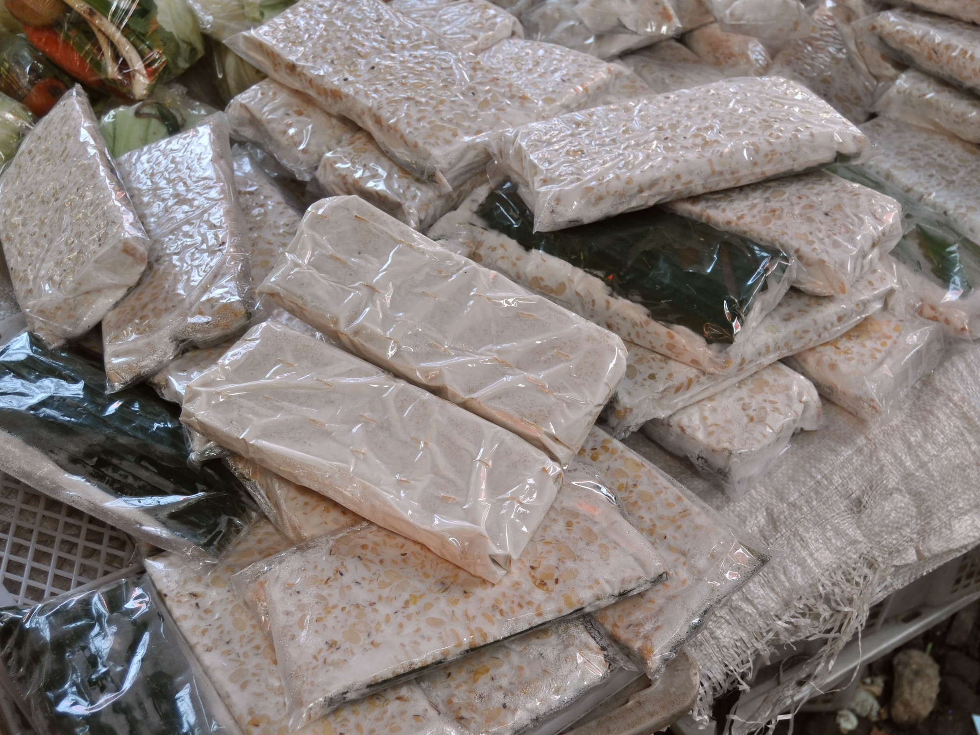 Gembus tempeh (white, made from waste of tofu production), among the ordinary, soybean tempeh (mottled yellowish brown in color), as sold in traditional market in Kebumen, Central Java, Indonesia.